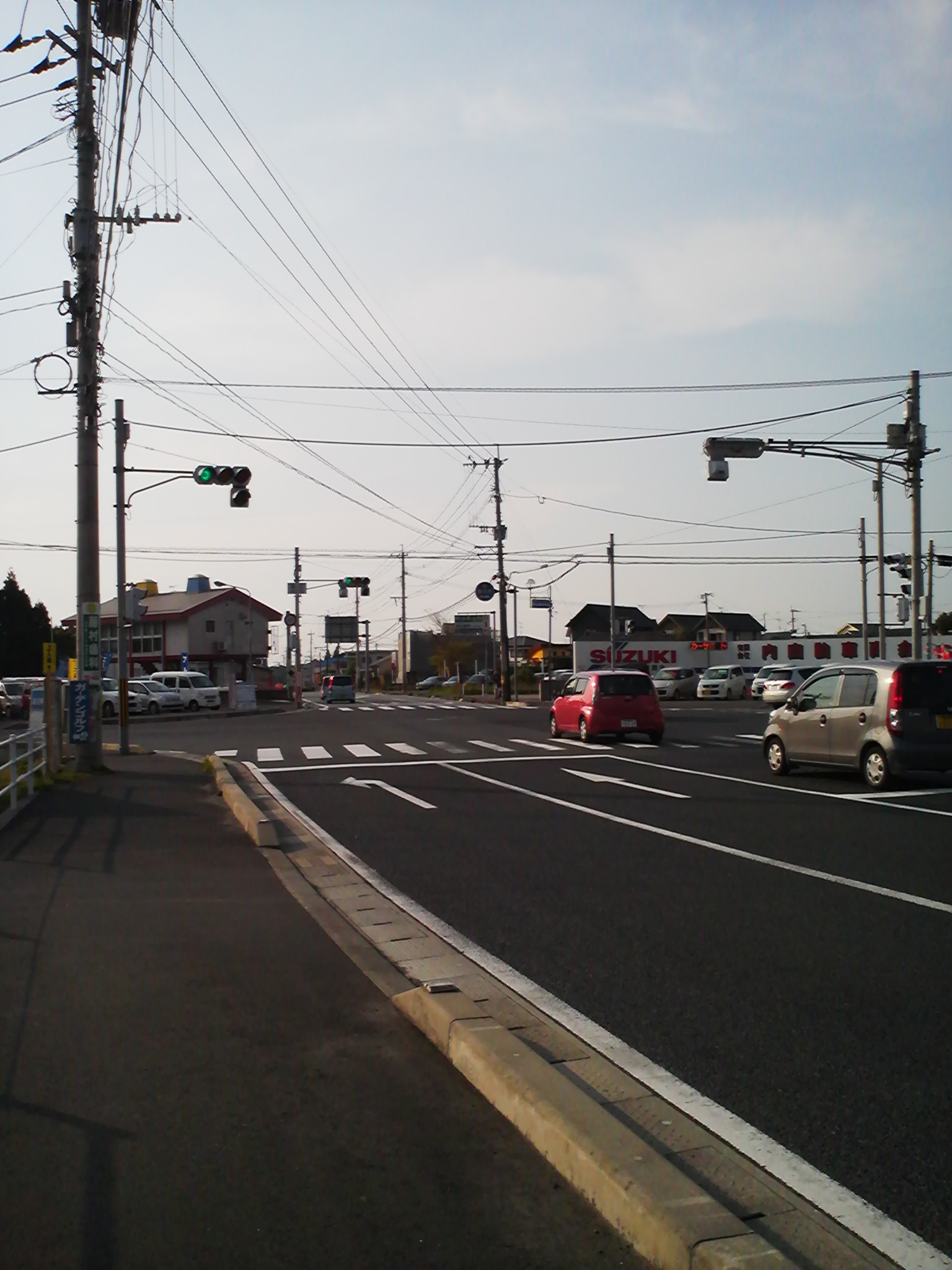 Haruyama Intersection of the Kagoshima Prefectural Road Routes 35, 210 and the Hioki Regional Farm Road